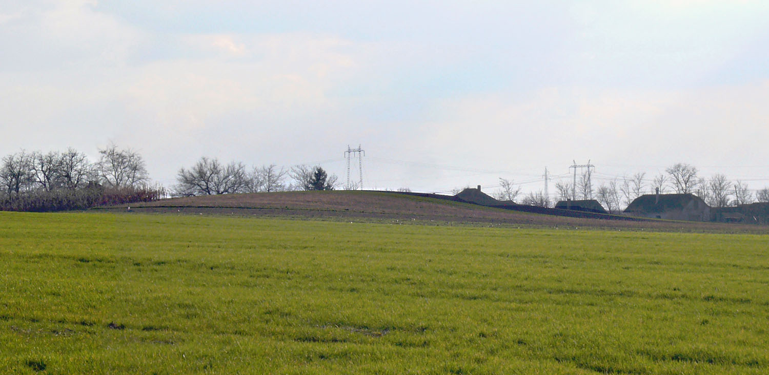 Old earthen mound, a kurgan or tell in a village near lake Ludaš in Vojvodina, Serbia; in badly plowed state. Code:BAC250 Srpskohrvatski / српскохрватски: Humka na lokaciji Debelo brdo, u mestu Šupljak kod Subotice, u vrlo lošem, izoranom stanju